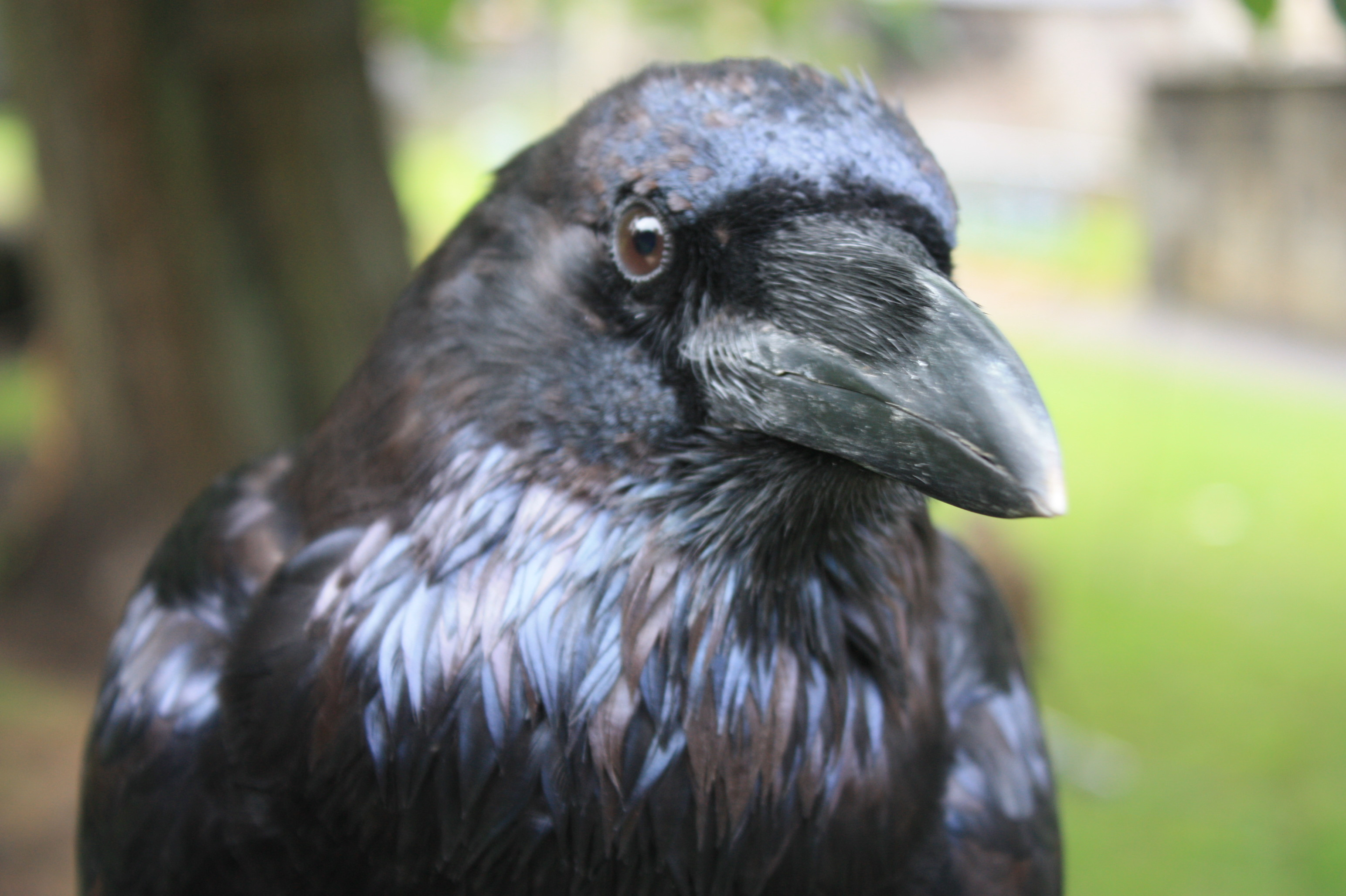 Head of a Raven